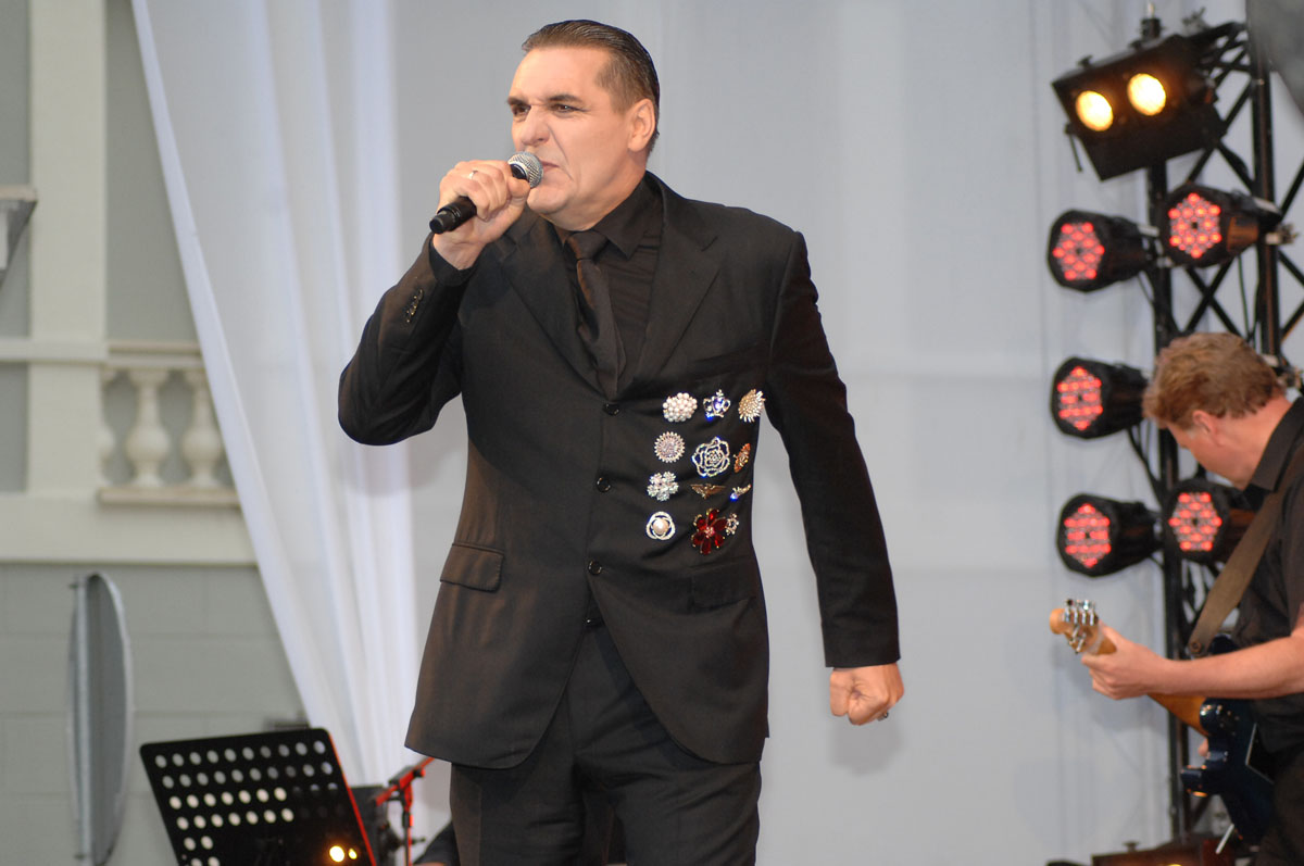 Dalia Grybauskaitė Presidential inauguration, Lithuania, 2009-07-12 Algirdas Kaušpėdas